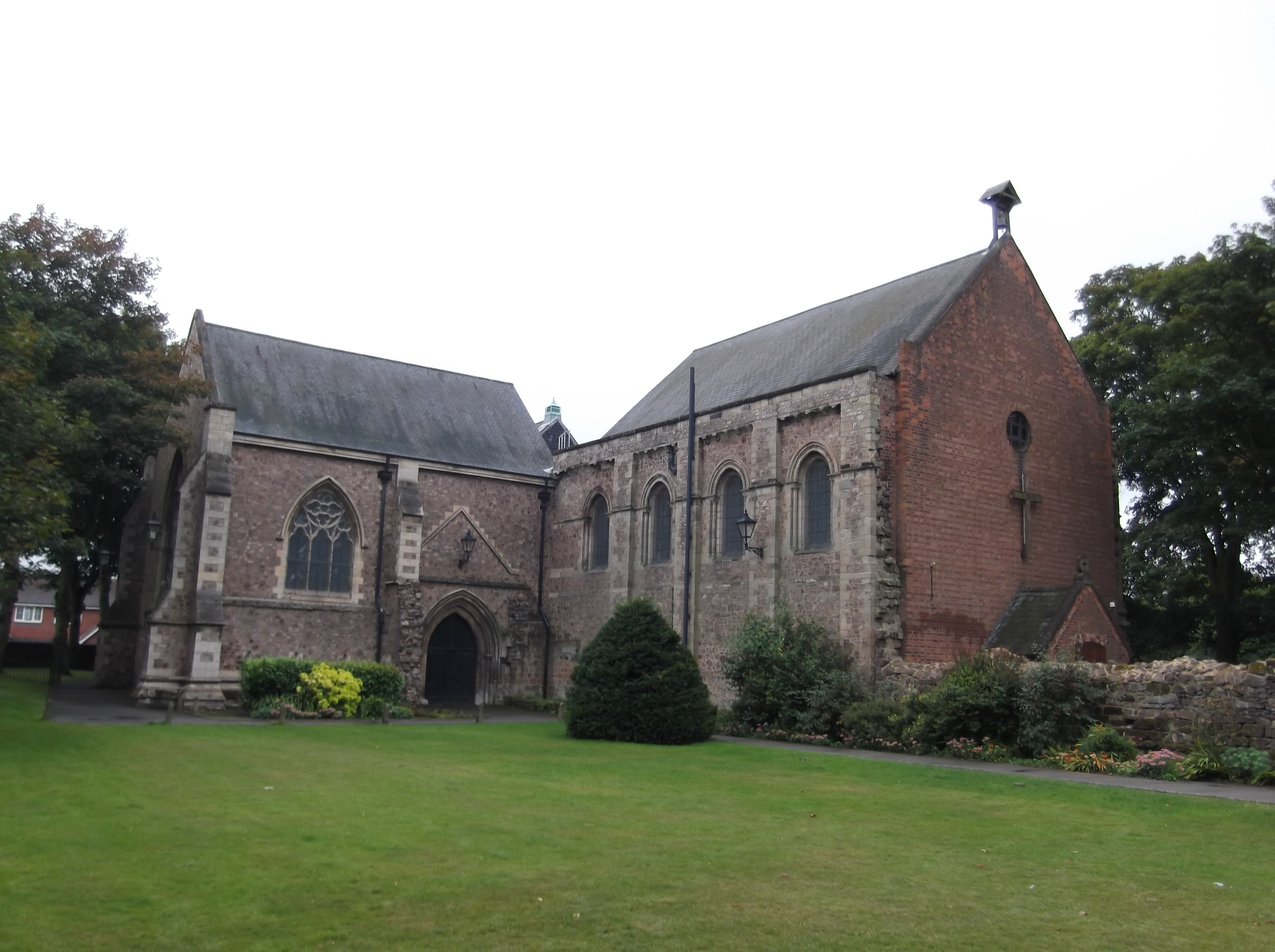 Nuneaton Priory, Warwickshire, England